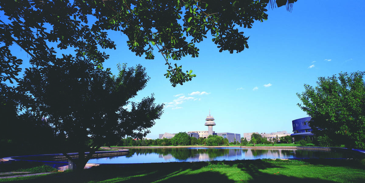 Neusoft Shenyang Headquarters alternative view